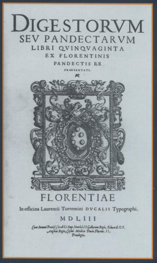 Titlepage of 'Digestorum seu Pandectarum libri quinquaginta ex Florentinis Pandectis repraesentati. Florentiae, In officina Laurentii Torrentini Ducalis Typographi', MDLIII. Cum Summi Pontif. Caroli V. Imp. Henrici II. Gallorum Regis, Eduardi VI. Angliae Regis, Cosmi Medicis Ducis Florent. II. Privilegio.